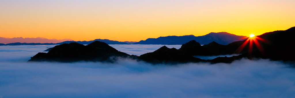 Photographed by Doug Dolde at dawn on Halloween, 2001 above Malibu, California.